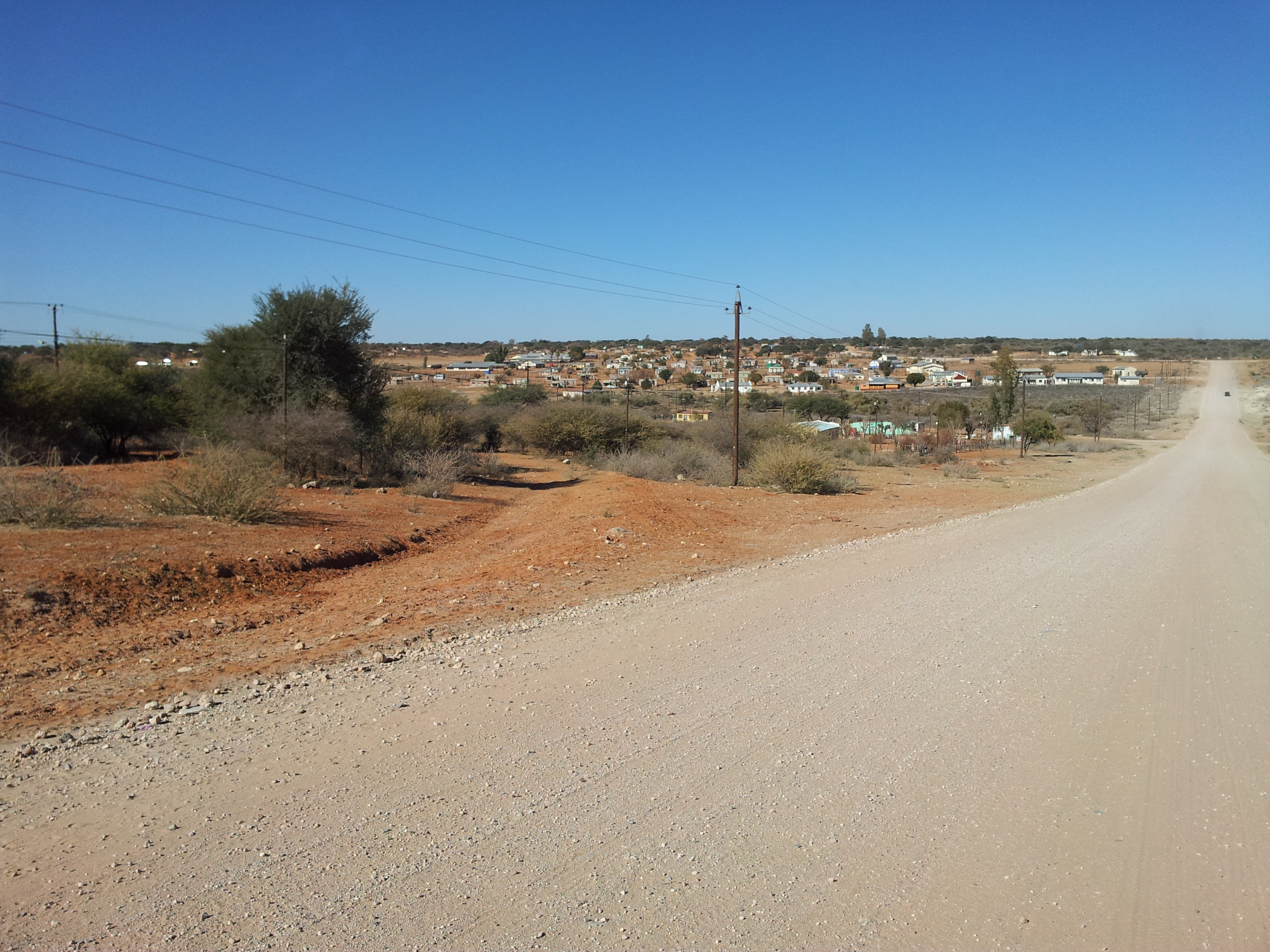 View over the Omauezonjanda (Post 3) location of Epukiro, rural Namibia